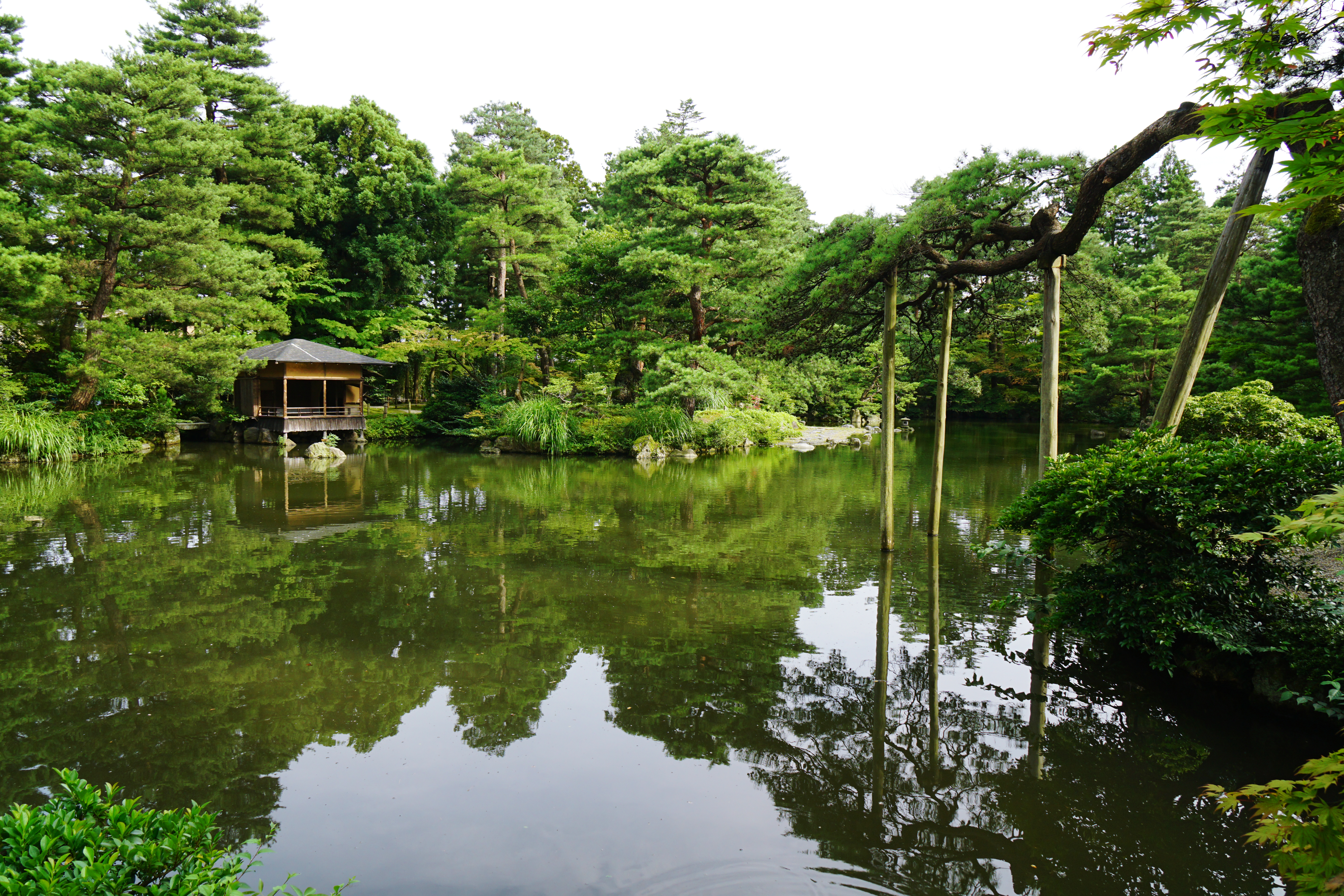 Shimizu-en in Shibata, Niigata prefecture, Japan.